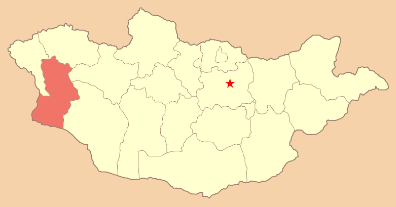 Map of Mongolia with Khovd Aimag highlighted.